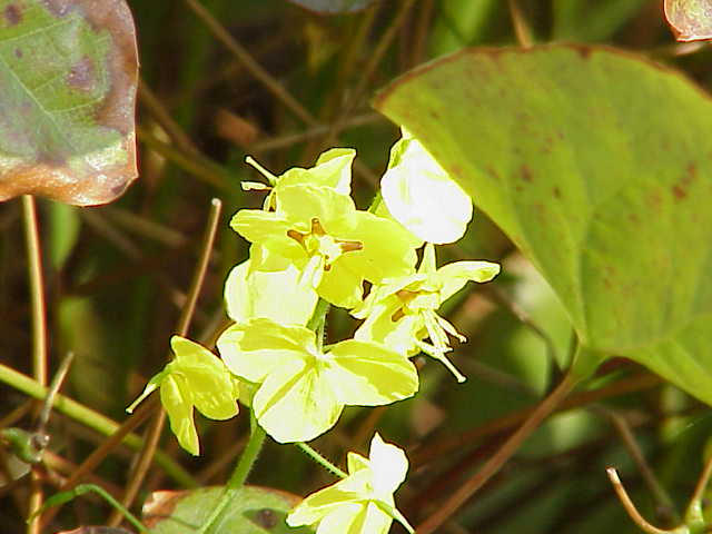 Species: Epimedium pinnatum Family: Berberidaceae Image No. 4